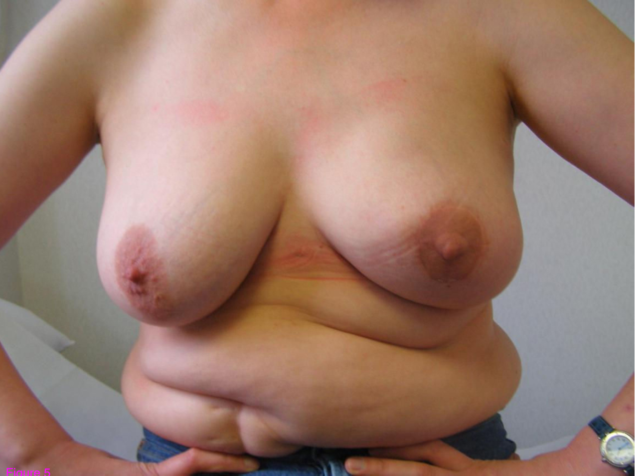 Skin sparing mastectomy and latissimus dorsi flap with nipple reconstruction. Left skin sparing mastectomy and latissimus dorsi myocutaneous flap reconstruction, followed by nipple reconstruction and tattooing.